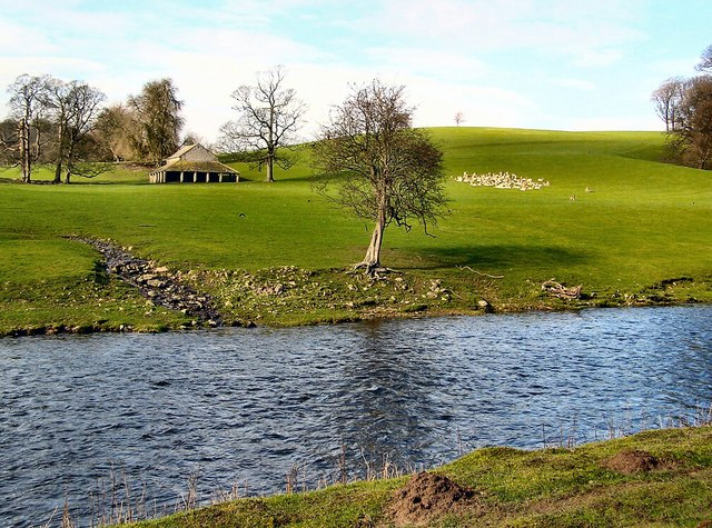 Dallam Tower Deer Park A very interesting barn, one of several in the area. Another one is to be seen on the lefthand side of the M6 travelling south before reaching Preston. The deer are a feature of the park, also to be found at Levens park SD5085